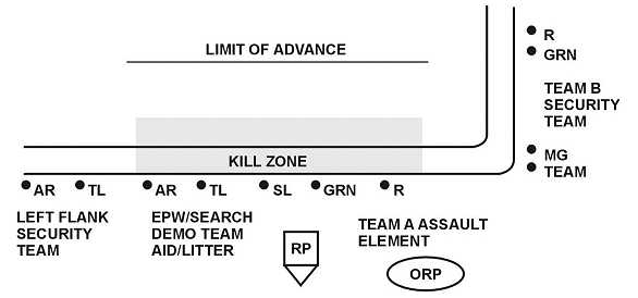 Diagram of an L shaped ambush.